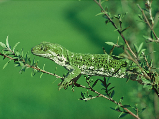 Naultinus manukanus by Rod Morris